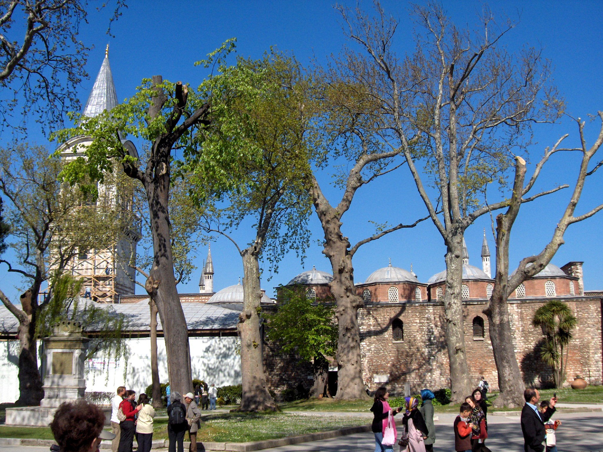 Building with the weapons collection on the second court; Topkapı Palace, Istanbul, Turkey